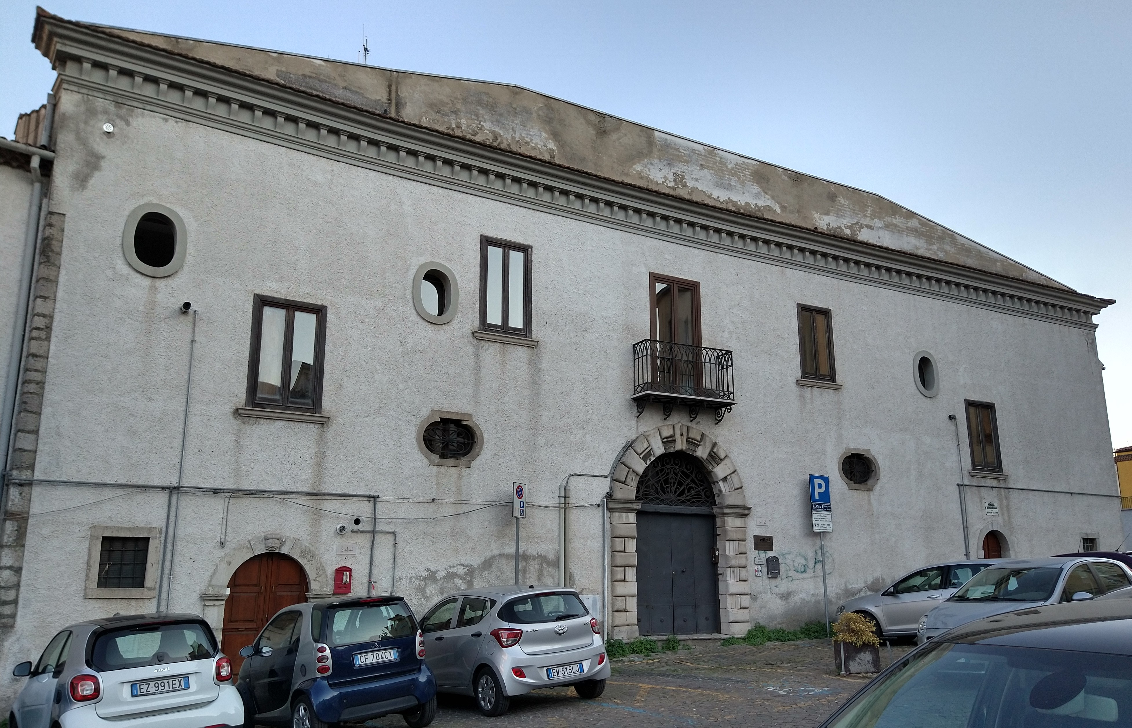 Front view of Palazzo Bonifacio, Potenza, Italy.